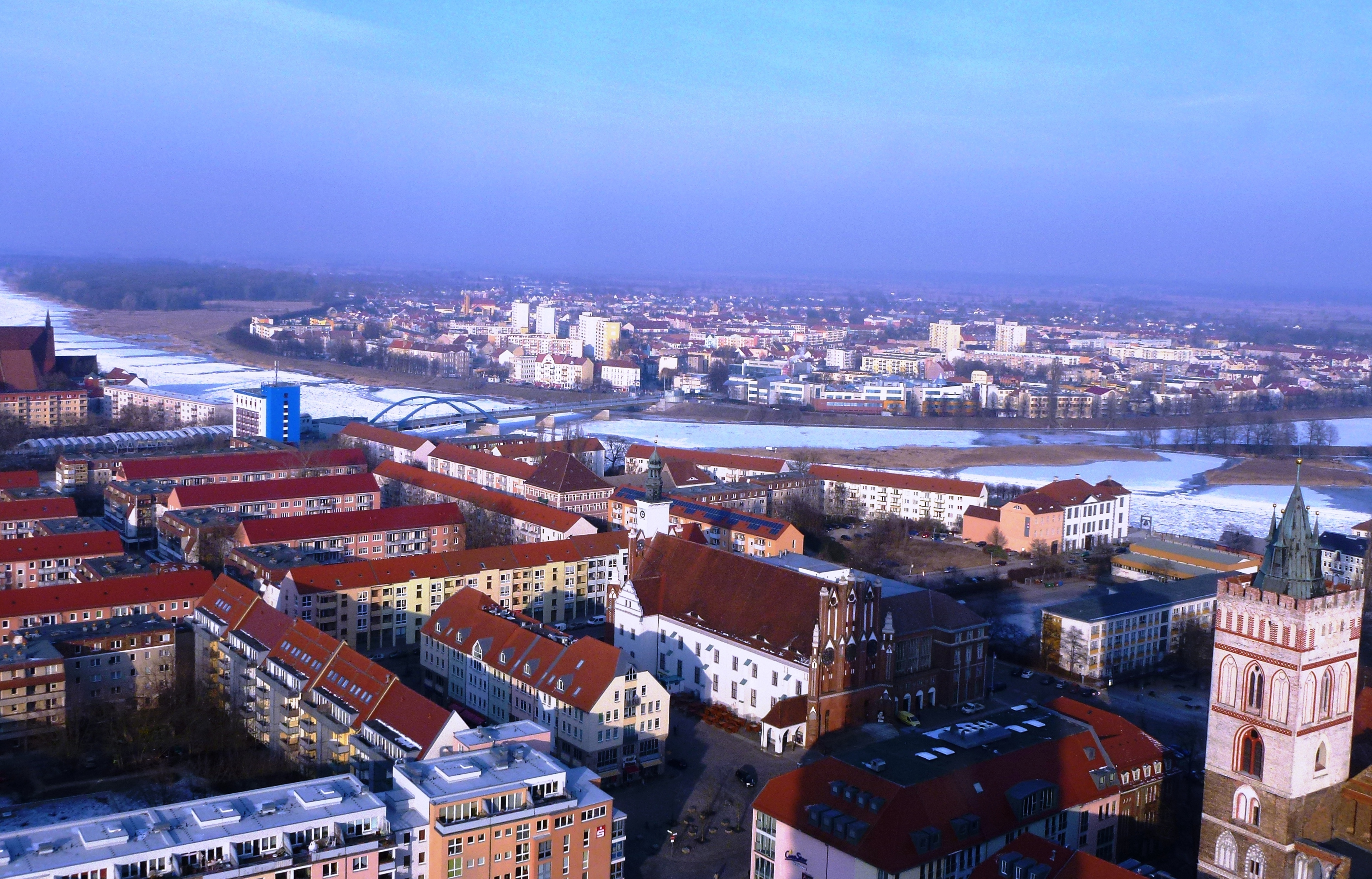 Slubice/Poland - Frankfurt (Oder)/Germany